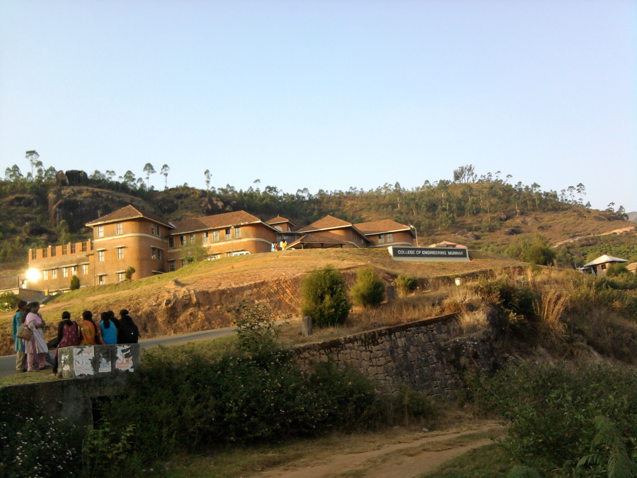 College of Engineering Munnar